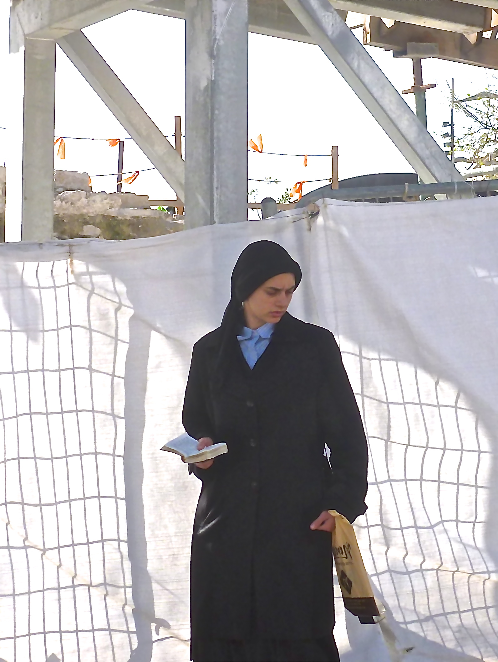 Haredi woman at the Western Wall in Jerusalem, walking backwards away from the Wall to show respect and reverence